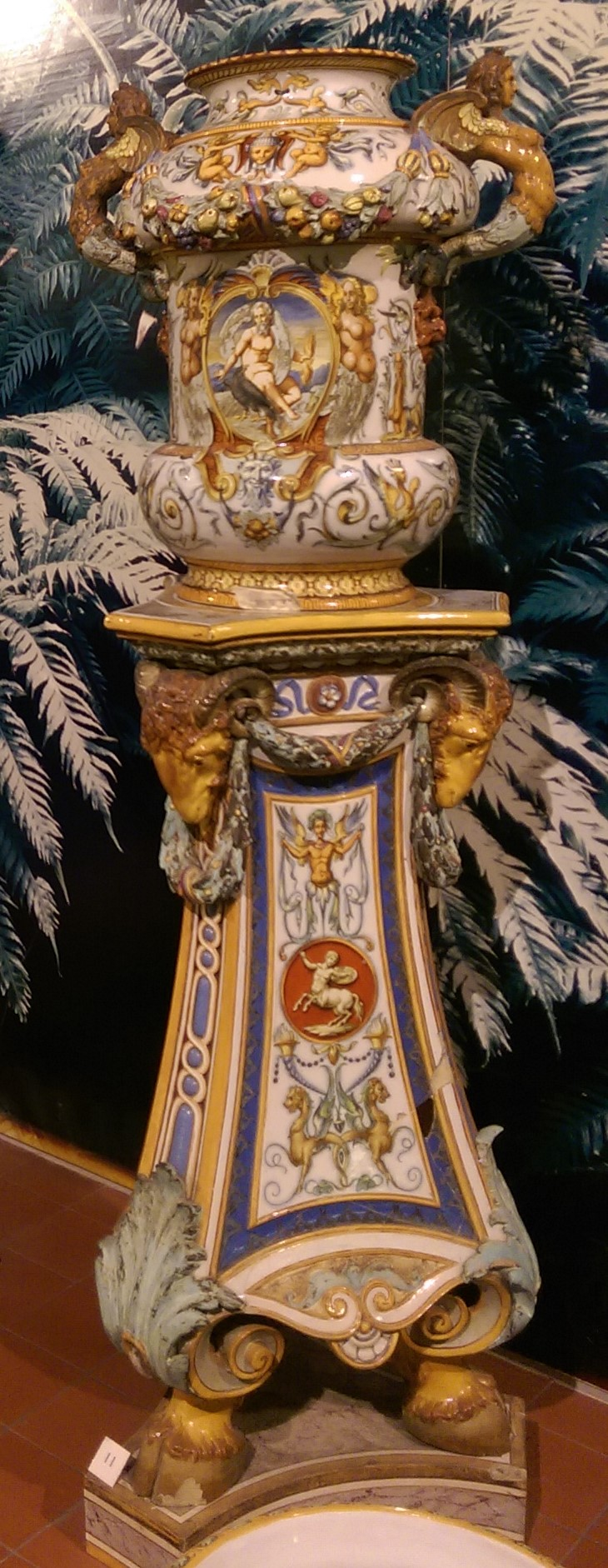 Minton tin-glazed majolica in imitation of Italian maiolica, finely brush-painted on opaque white. Thanks to Potteries Museum, Stoke-on-Trent